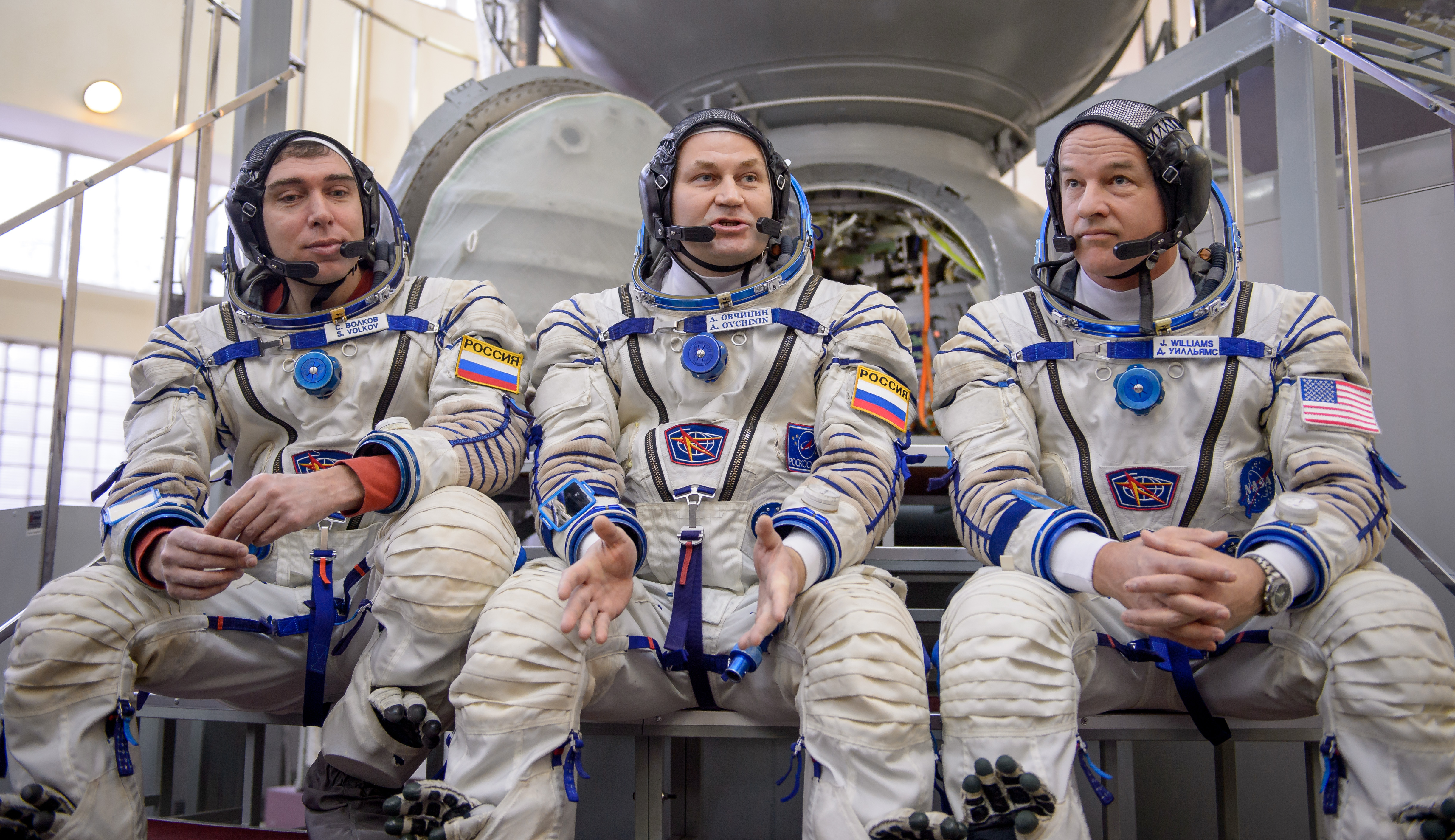 Expedition 43 backup crew members: Russian cosmonaut Sergei Volkov of the Russian Federal Space Agency (Roscosmos), left, Russian cosmonaut Alexei Ovchinin of Roscosmos, center, and NASA Astronaut Jeff Williams answer questions from the press outside the Soyuz simulator ahead of their Soyuz qualification exams, Wednesday, March 4, 2015, at the Gagarin Cosmonaut Training Center (GCTC) in Star City, Russia.